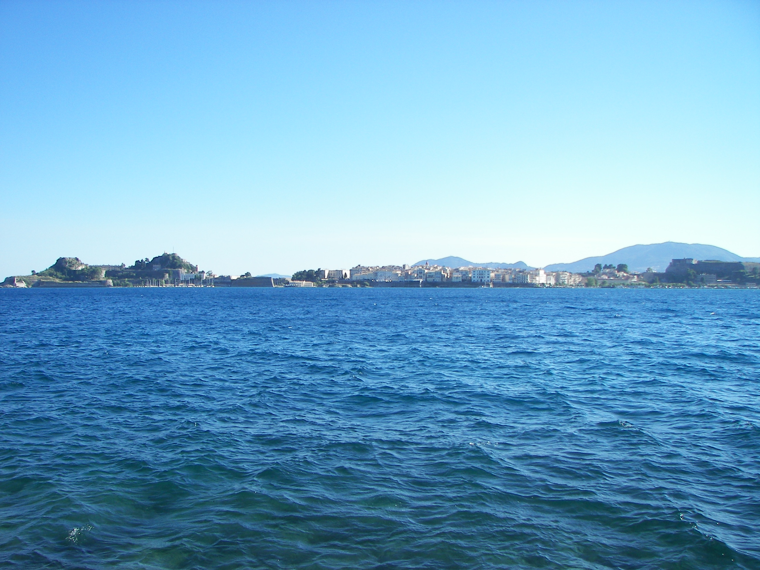 I am the author. Tasoskessaris 00:20, 6 September 2006 (UTC)